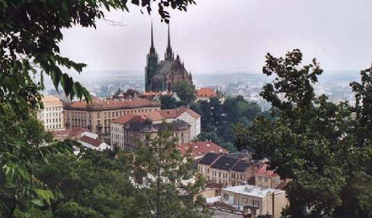 City of Brno, Czech republic, with the St. Peter and Paul cathedral